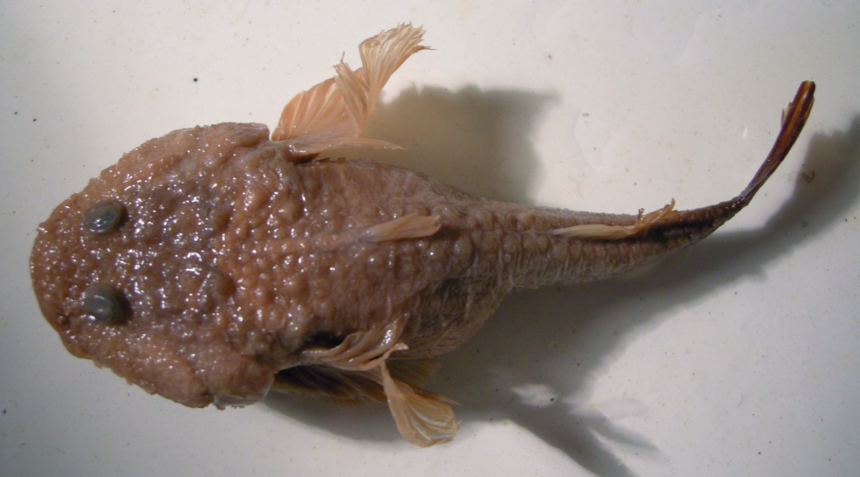 Benthophilus casachicus, Caspian Sea. Specimens from the personal collection of Vasily Boldyrev, Volgograd Division of the State Institute of Lake and River Fisheries, Russia.